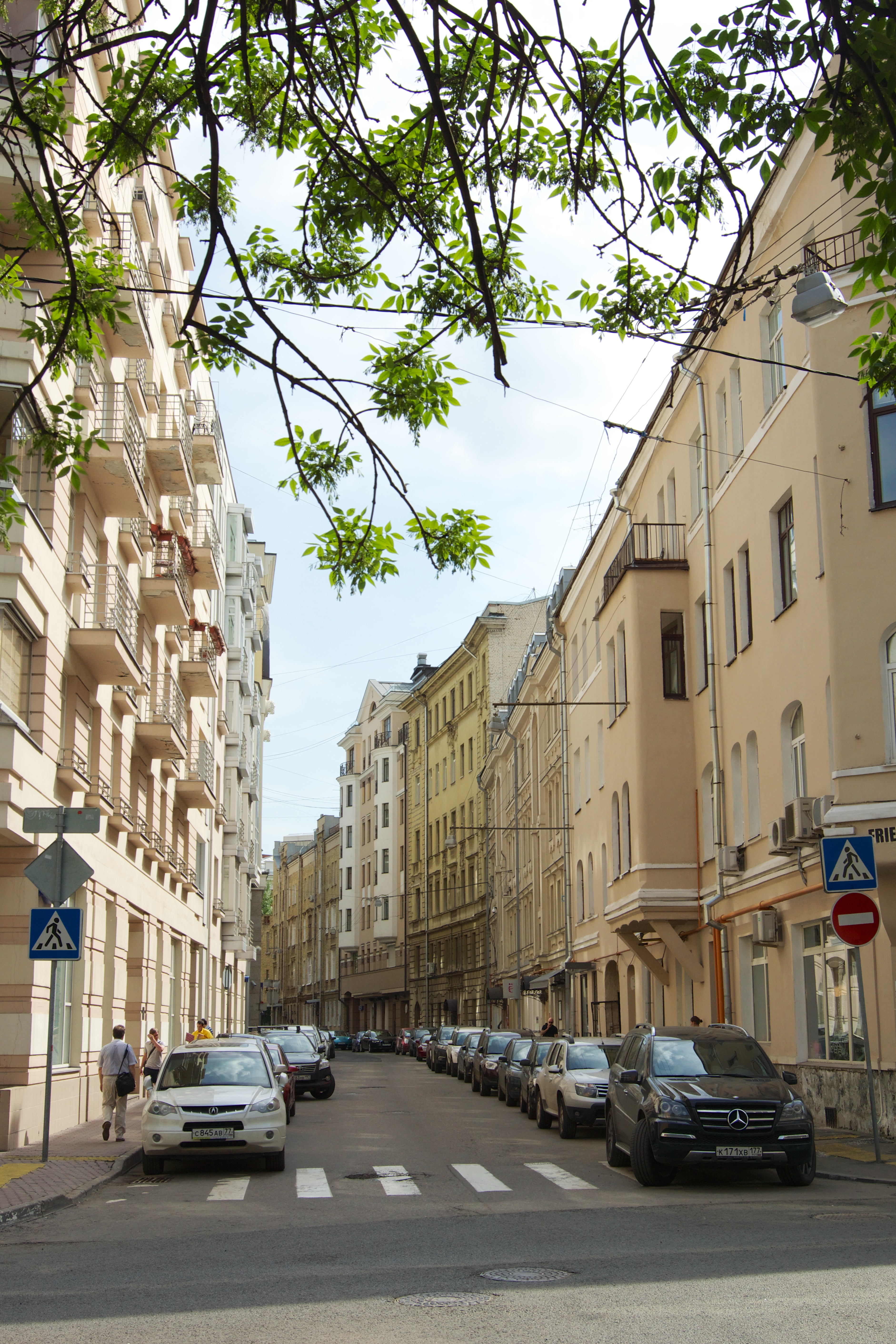 M. Kozikhinsky lane, Moscow, Russia